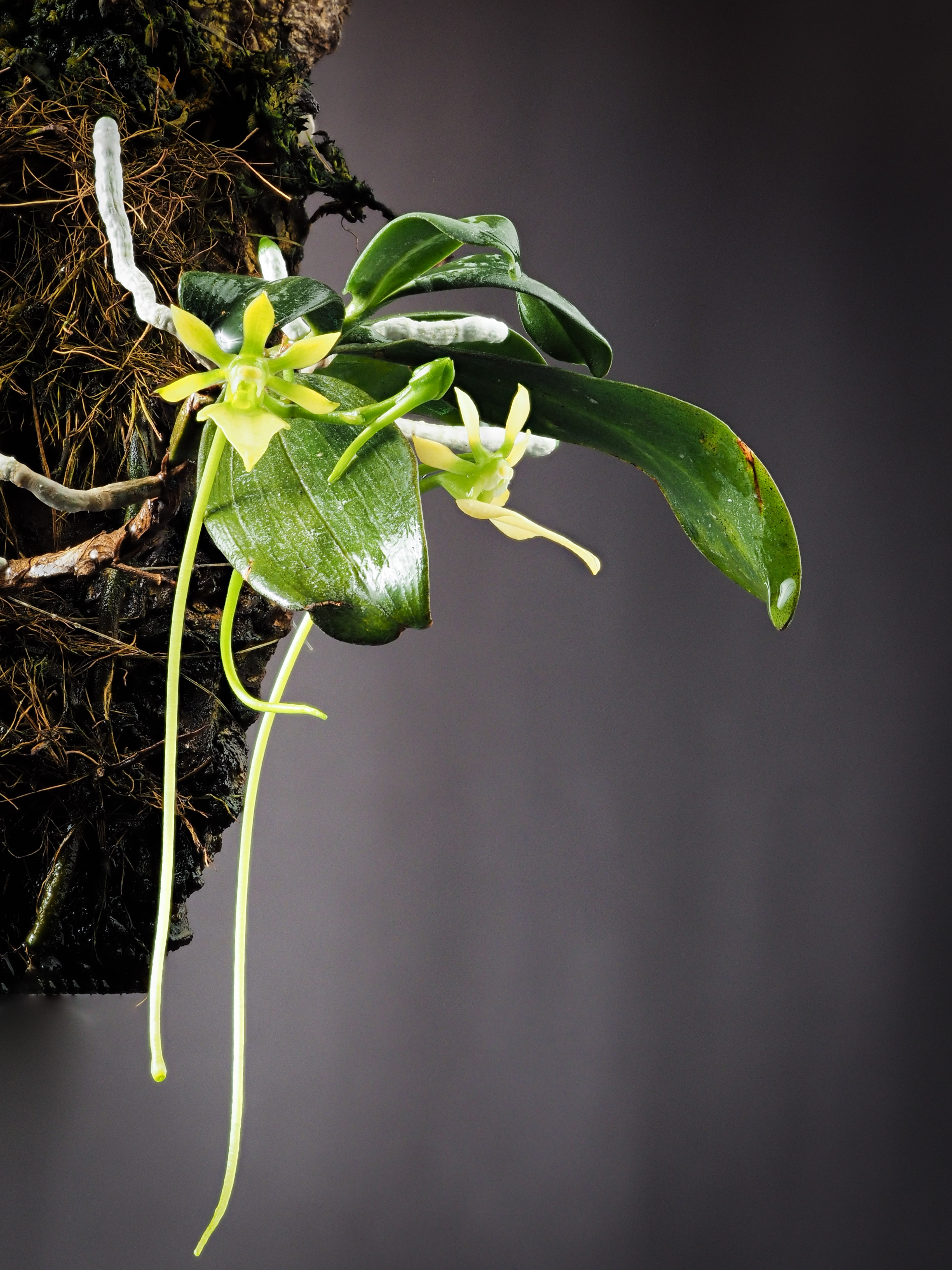 TW-3178, 50116, From Madagascar import by Louisiana Orchid Connection. E-M1 in-camera focus stacking with focus differential of 2. The flower closer to the camera is 1-2 days old. The flower is greener when it opens, and it become whiter with the age of the flower. The other flower behind the leaf is about 7-10 days old.